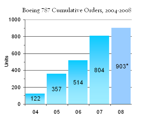 Total orders of Boeing 787 since launch. Source: The Boeing Company. As published in media. (*. Current through early September 2008).